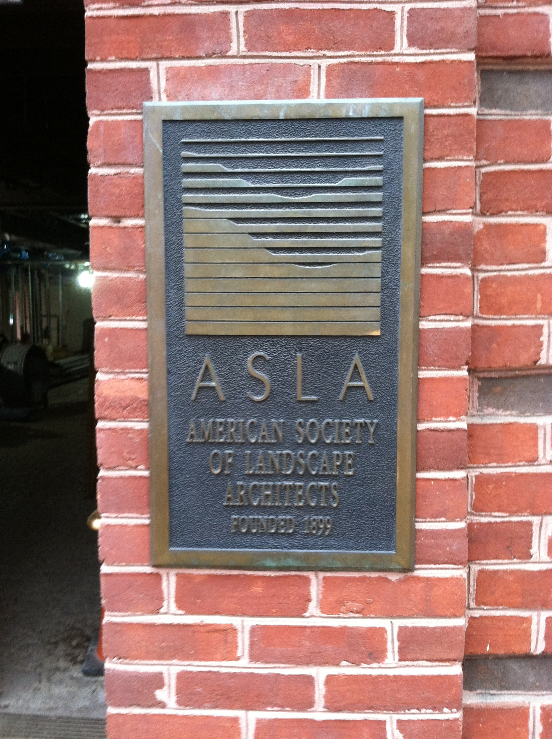 The American Society of Landscape Architects (ASLA) plaque on headquarters building. Organization founded 1899.